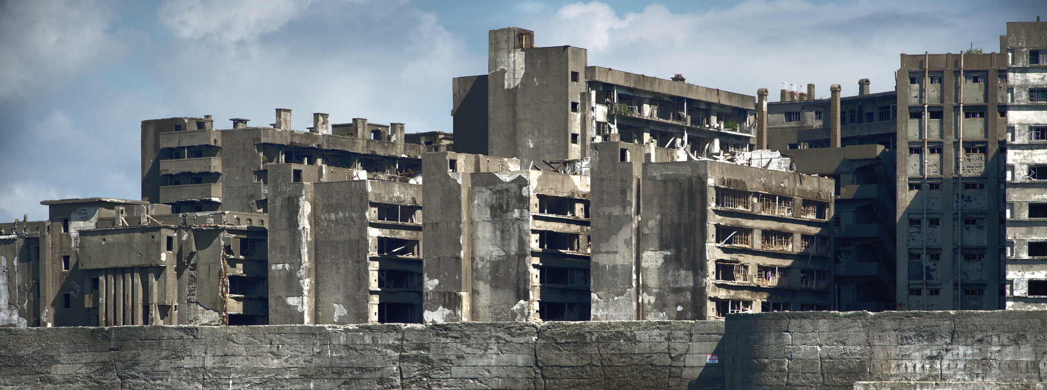 500px provided description: This is what you can see from the sea when approaching the Gunkanjima island. It used to be a coal mining island but now it's just some ruins in the middle of the ocean. It was the most densely populated city in the world, and if my map-reading is good those were the living quarters. [#island ,#building ,#ghost ,#industrial ,#mine ,#ruins ,#nagasaki ,#gunkanjima]